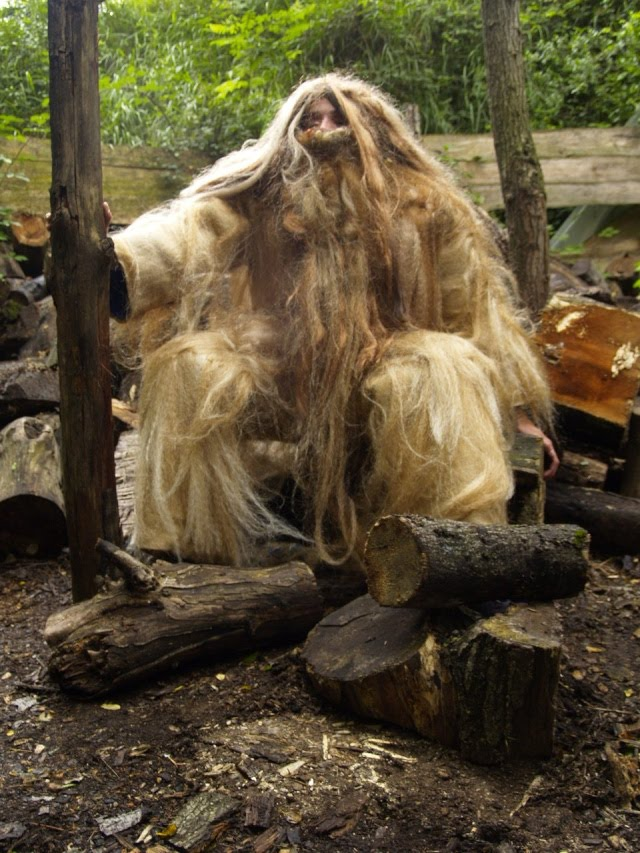 basajaun jentil